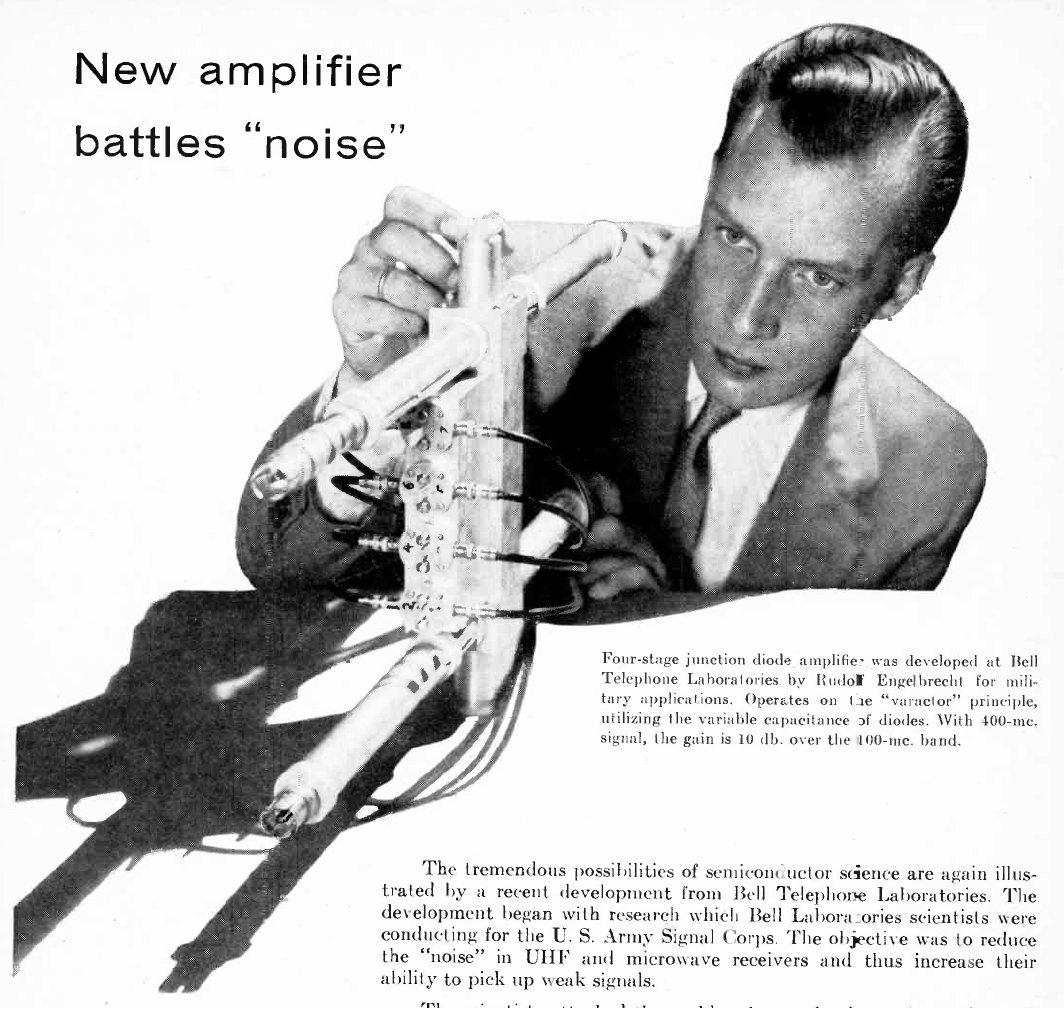 The first varactor parametric amplifier, invented at Bell Labs in the late 1950s. Using 4 varactor diodes, it achieved 10 dB gain at 400 MHz. Parametric amplifiers are used as extremely low noise microwave amplifier stages in radio telescopes, spacecraft communication antennas, and military communications. The input microwave signal is amplified in a semiconductor varactor diode by applying a "pump" microwave signal at another frequency from a local oscillator.